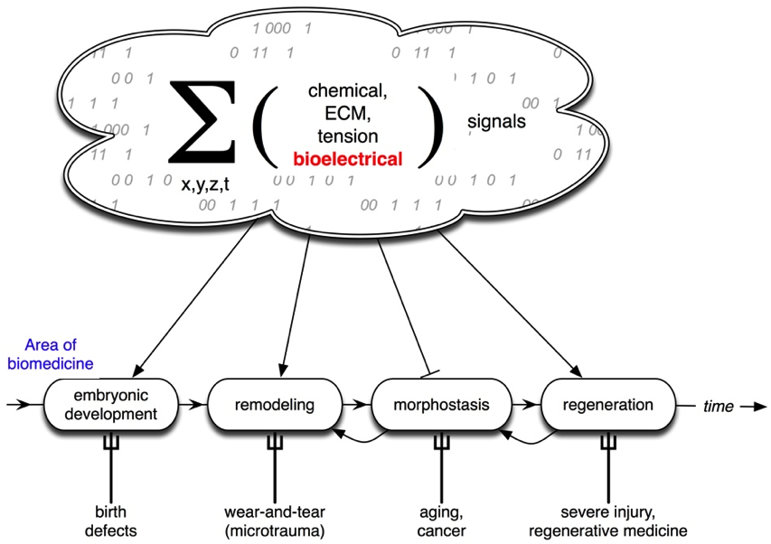 figure 1